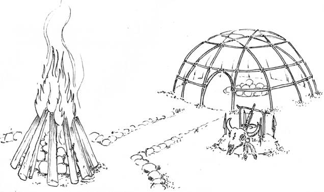 Temazcal